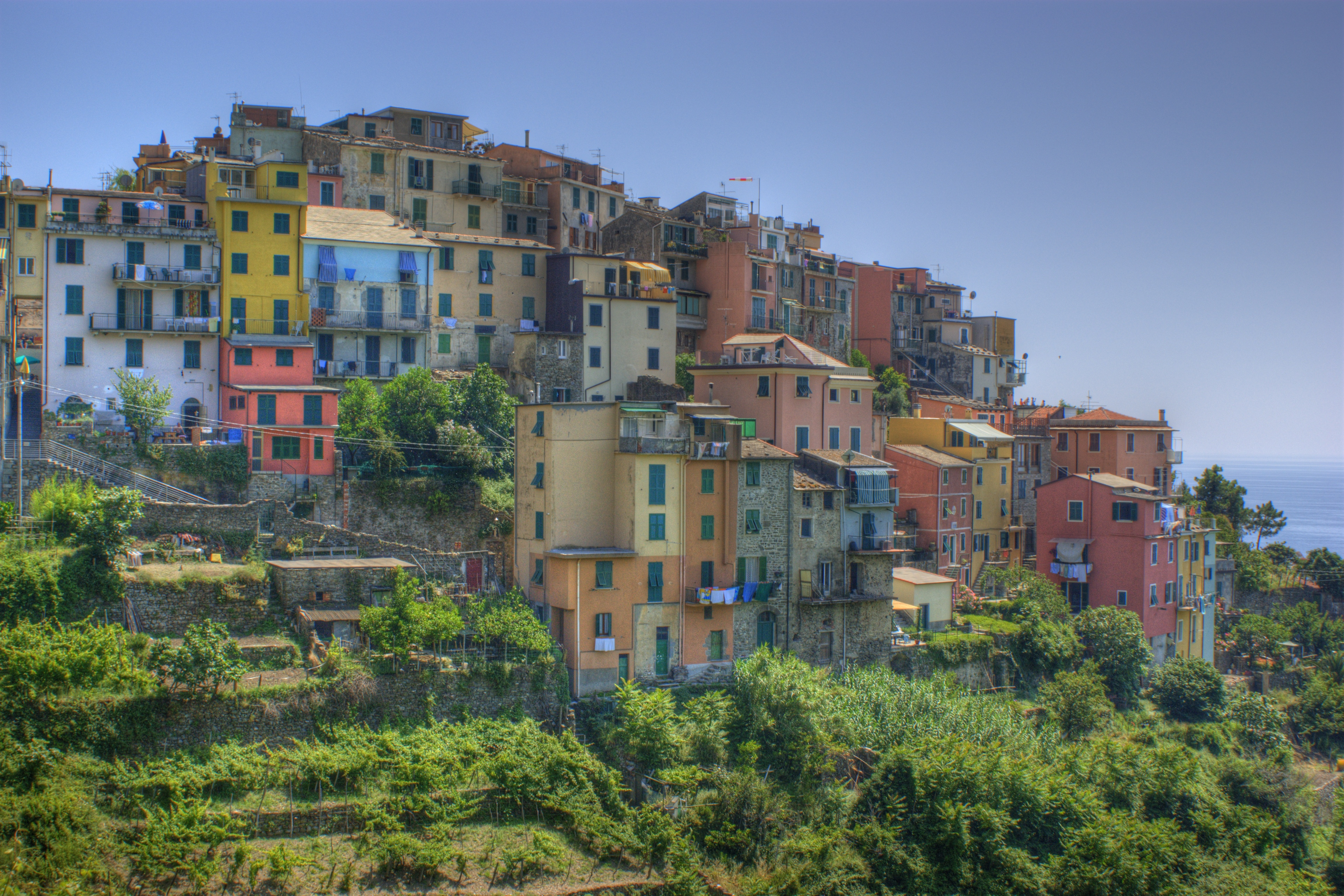 Corniglia, Italy